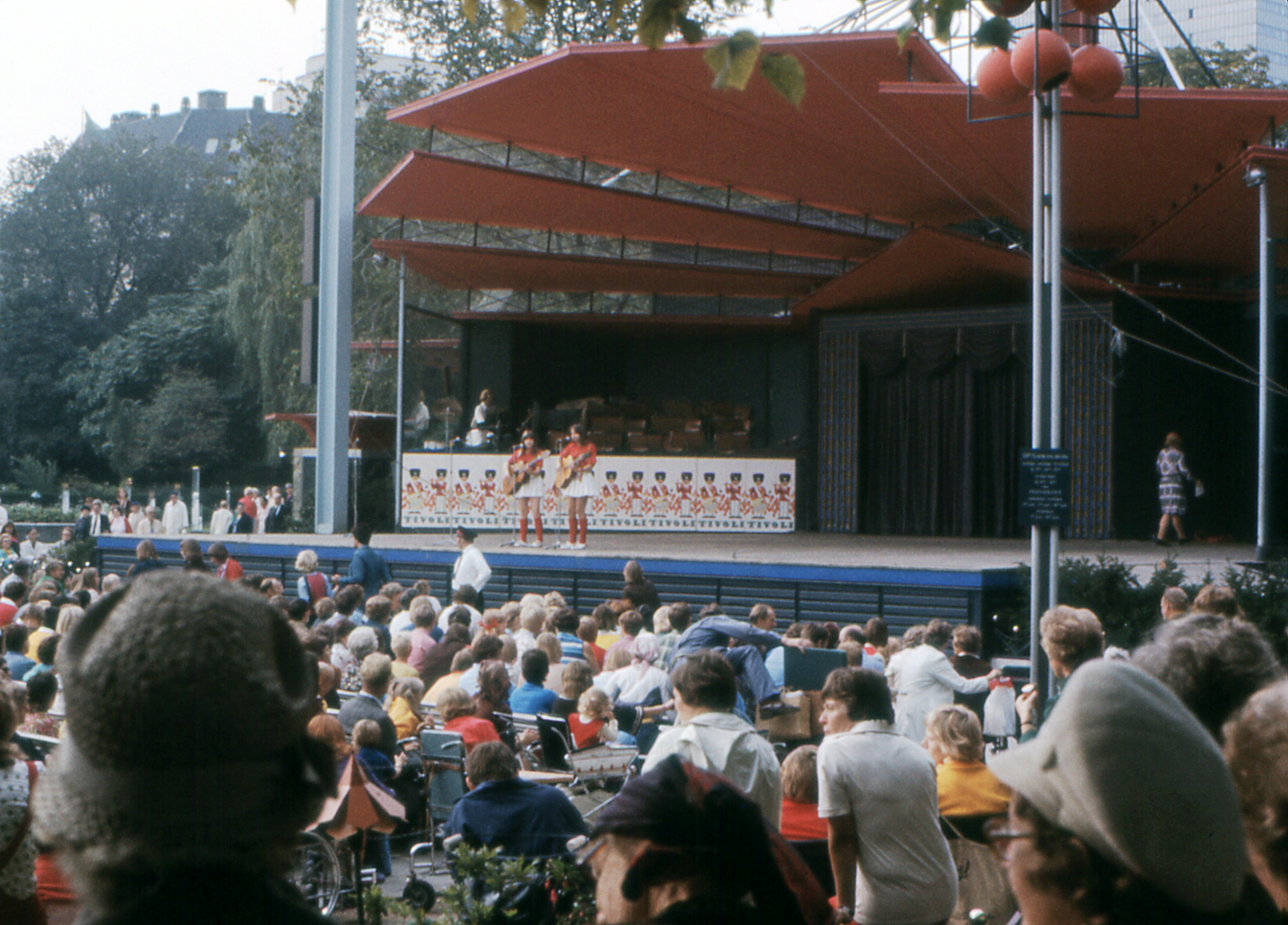 Tivoli in Copenhagen, Denmark, in September 1974